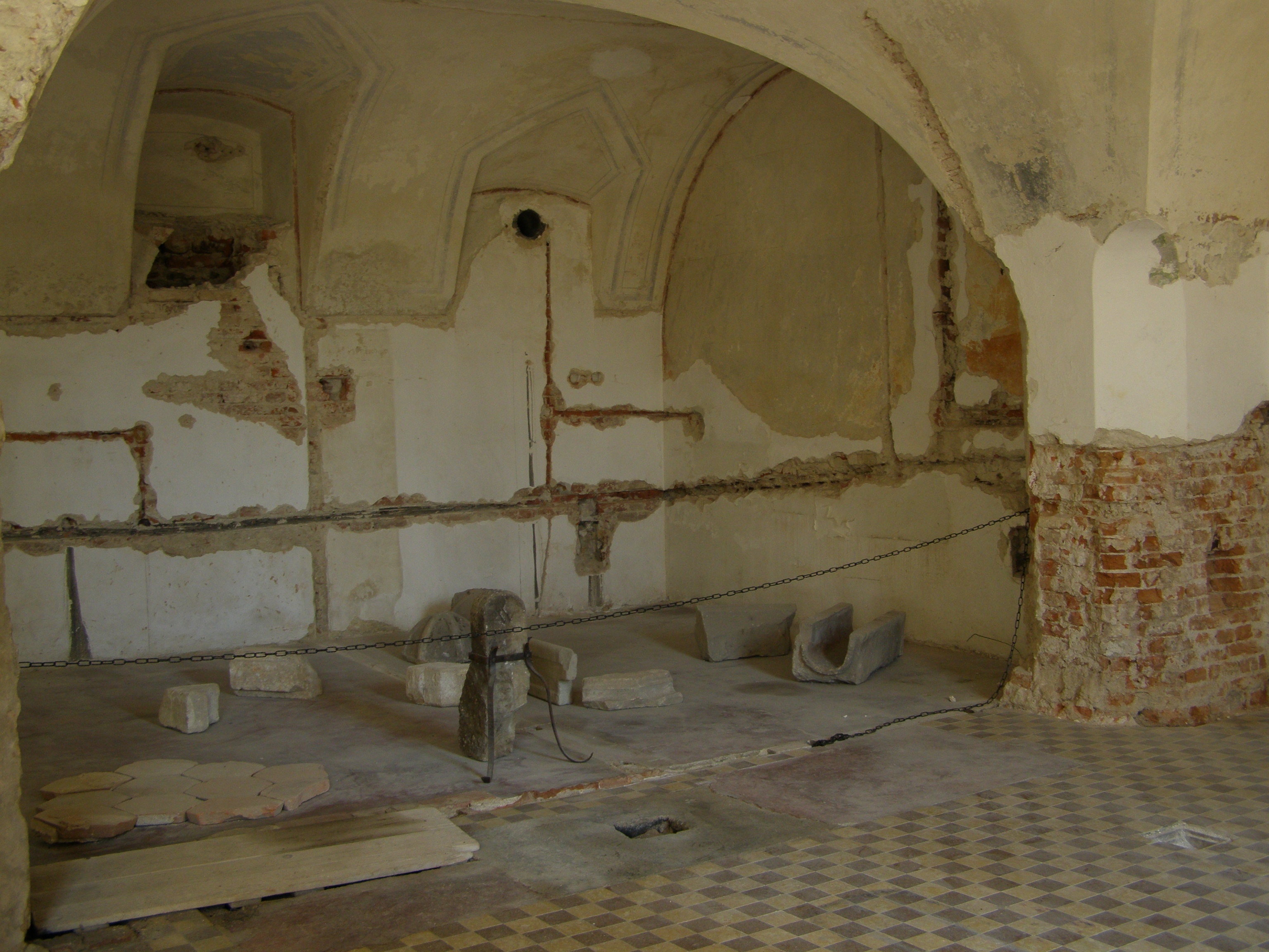 Veveří Castle